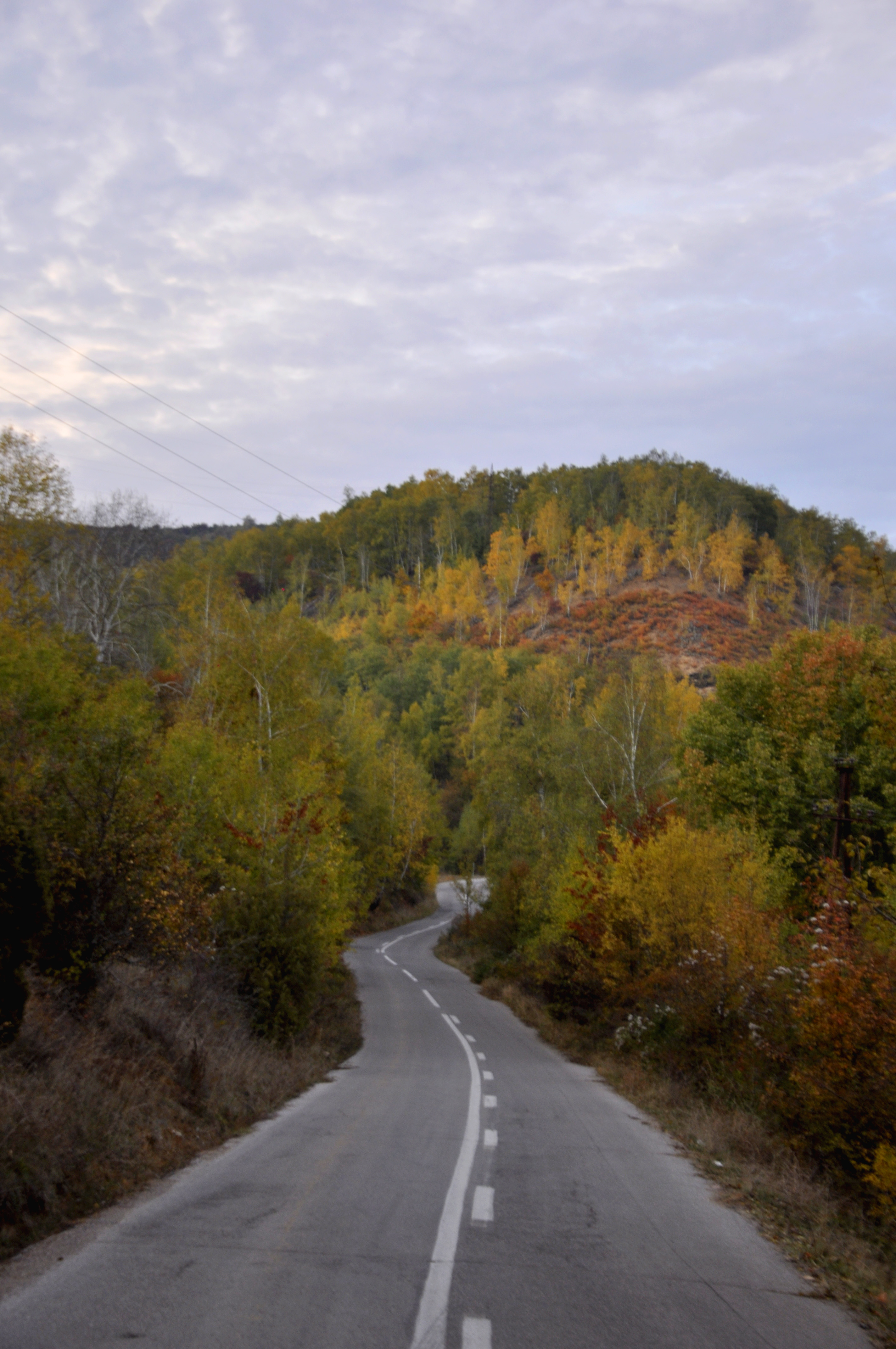 novoberda 5